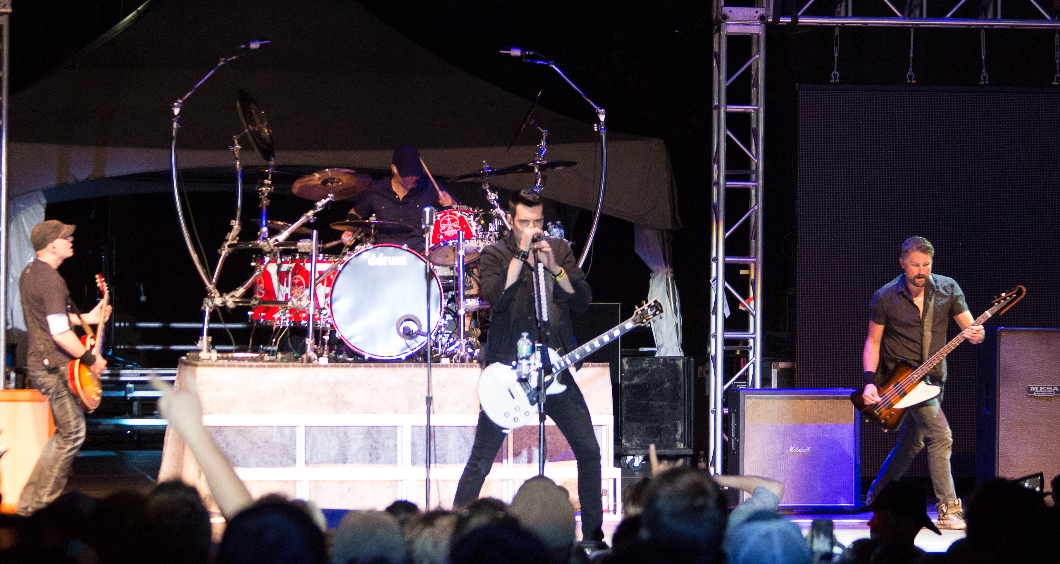 Festival of Friends Saturday 2013 HR-44